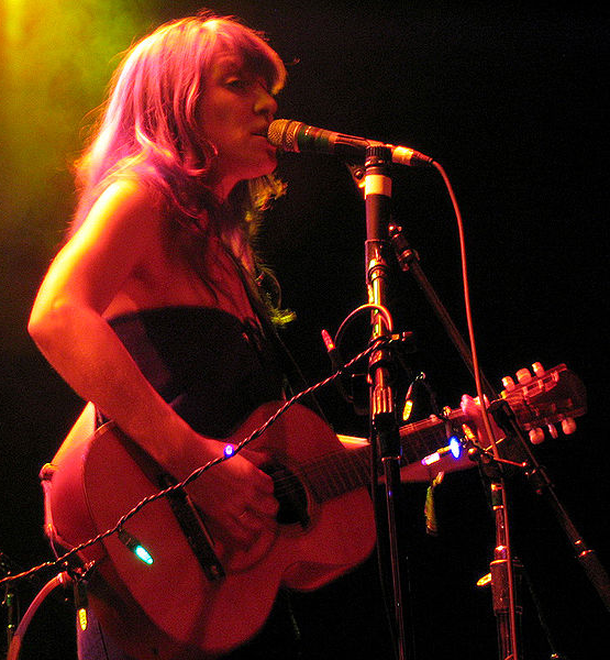 Canadian singer-songwriter Leslie Feist plays The Filmore in San Francisco.